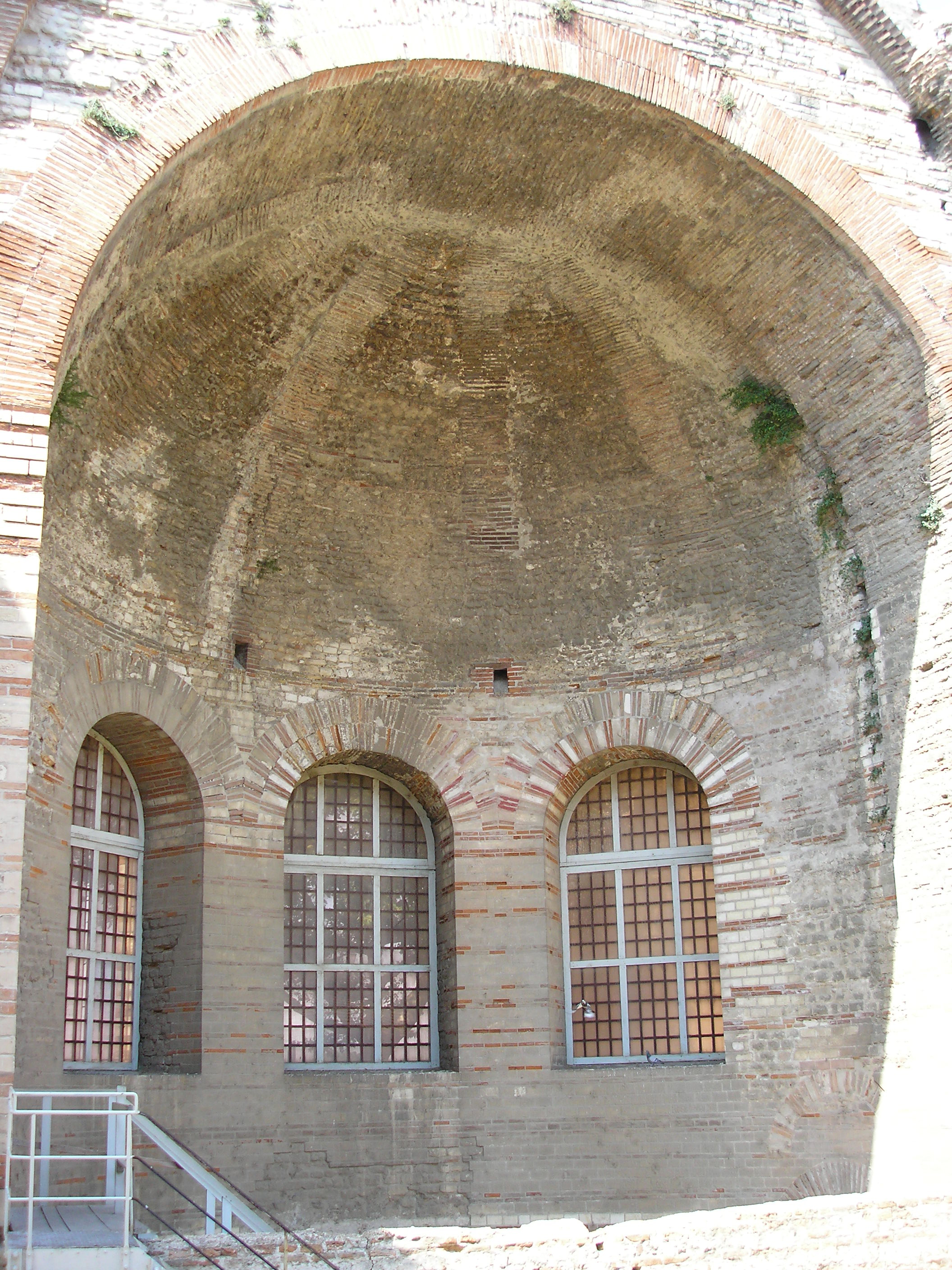 Arles_Thermes_de_Constantin_2_Voute_caldarium.jpg